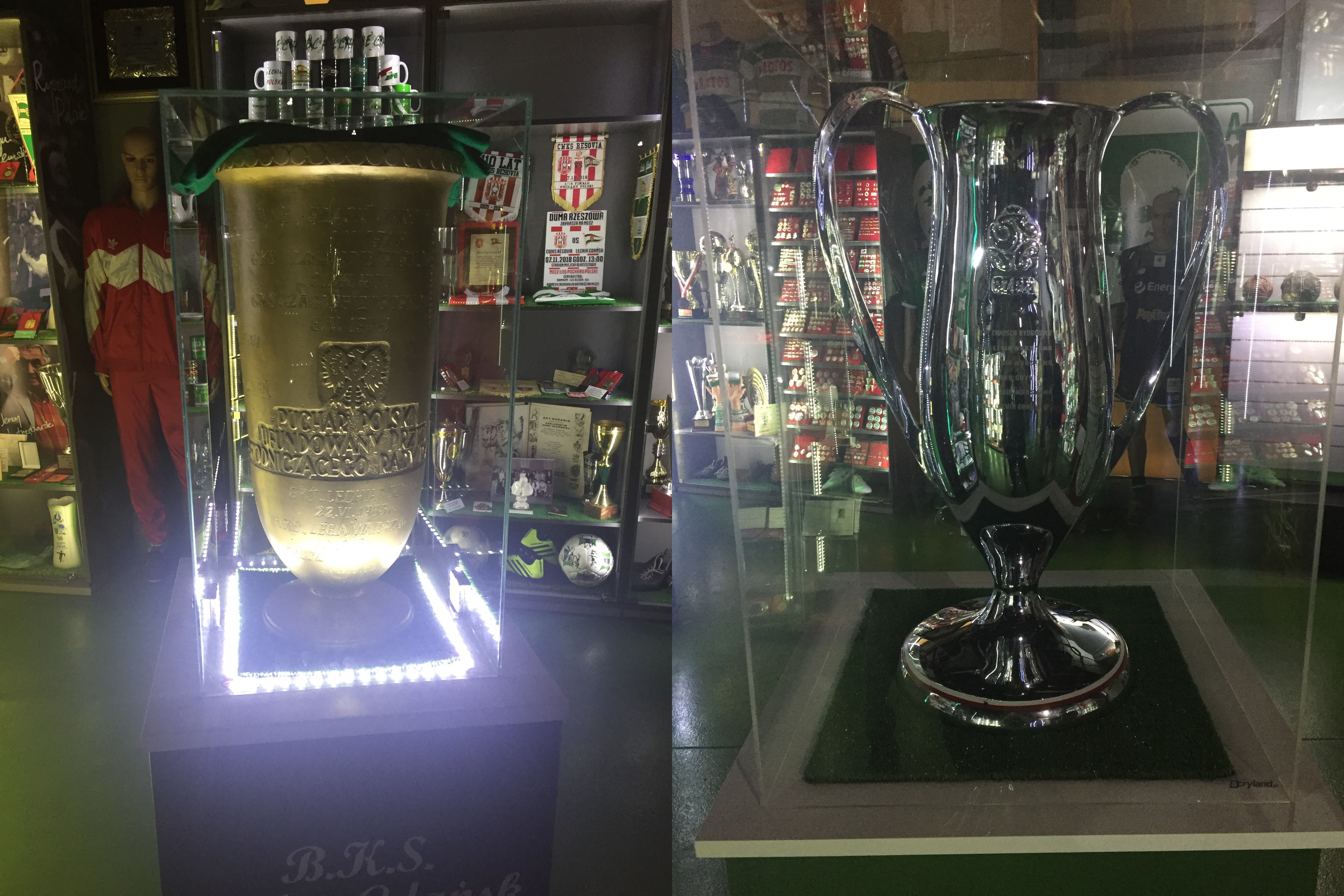 The cups won by Lechia. Photos taken at the Lechia museum in June 2019